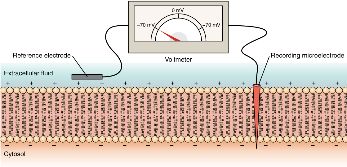 Version 8.25 from the Textbook OpenStax Anatomy and Physiology Published May 18, 2016